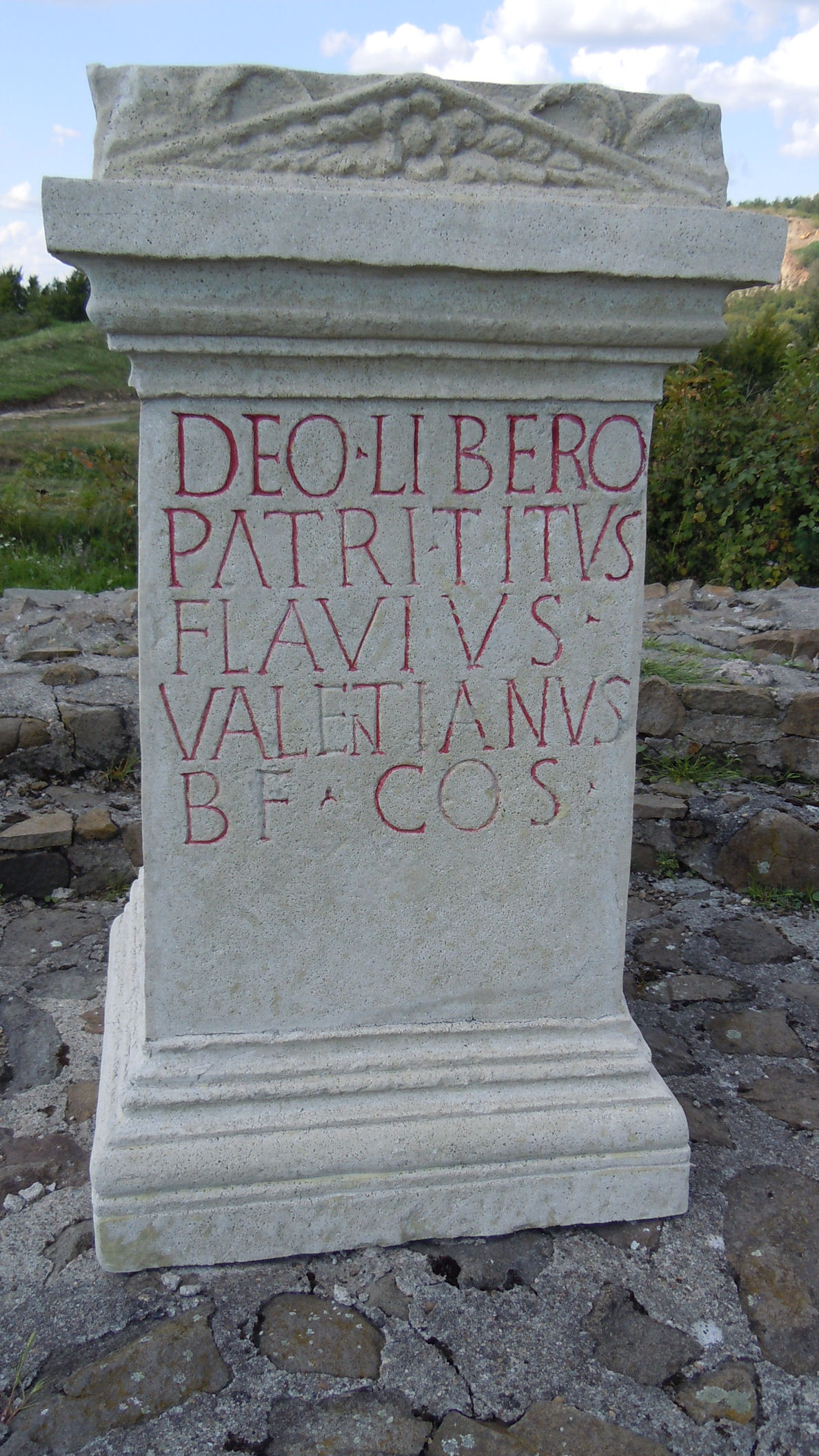 Liber Pater's Temple of Porolissum